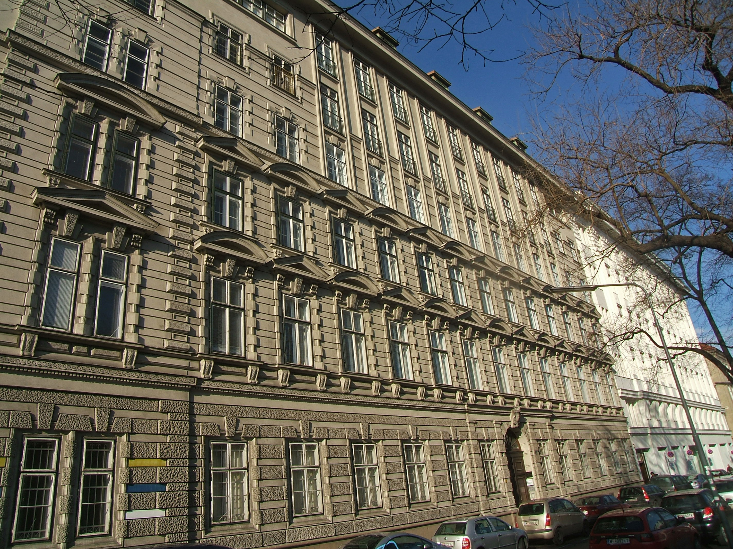 Palais Czernin in Vienna 1st district, Friedrich-Schmidt-Platz 4